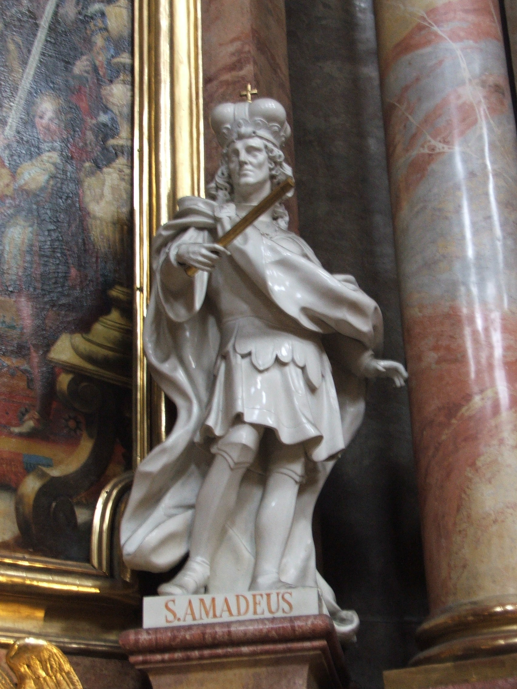 Statue of Blessed Amadeus IX, Duke of Savoy, St. Peter's Church, Vienna